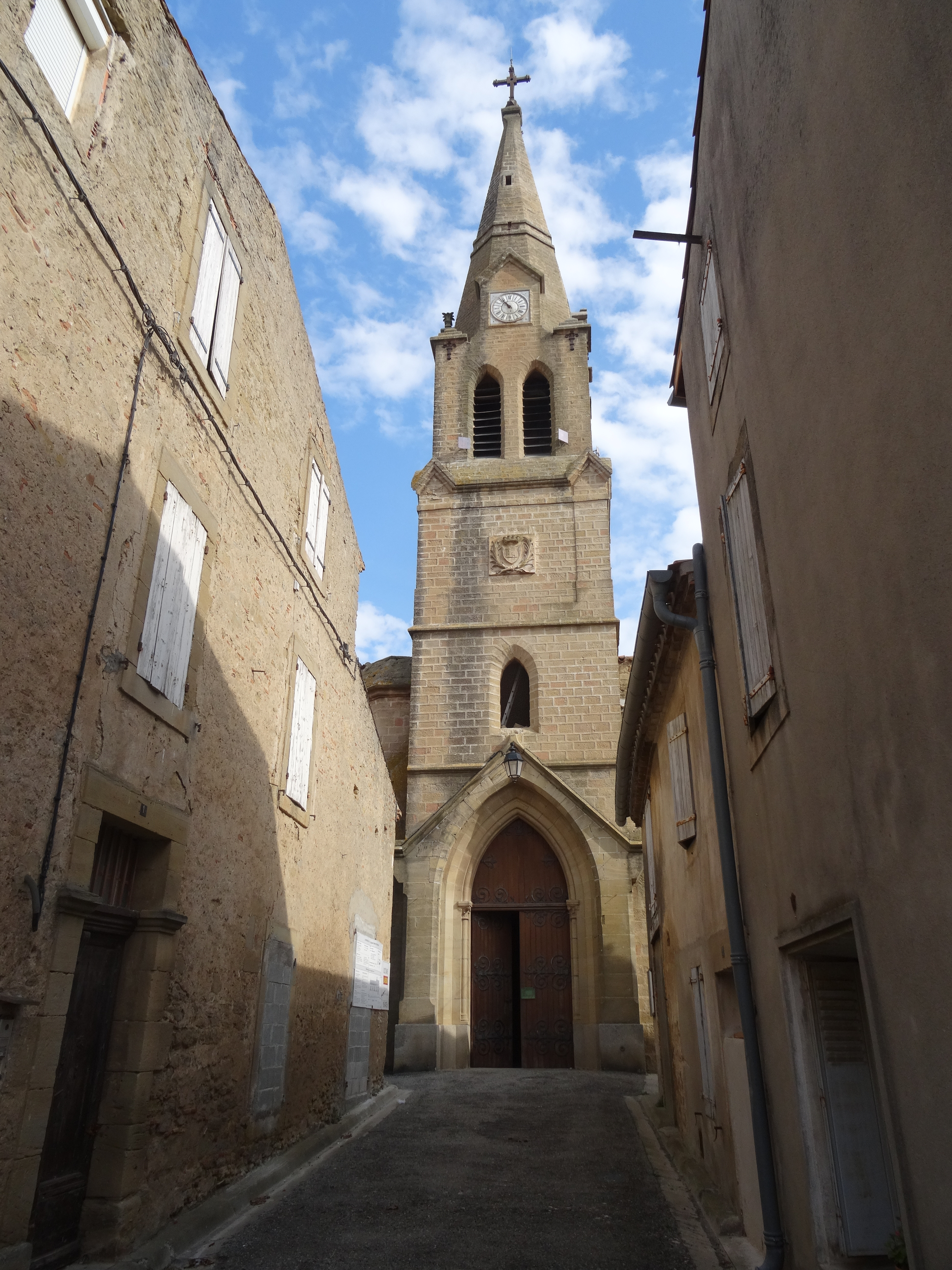 Lasbordes